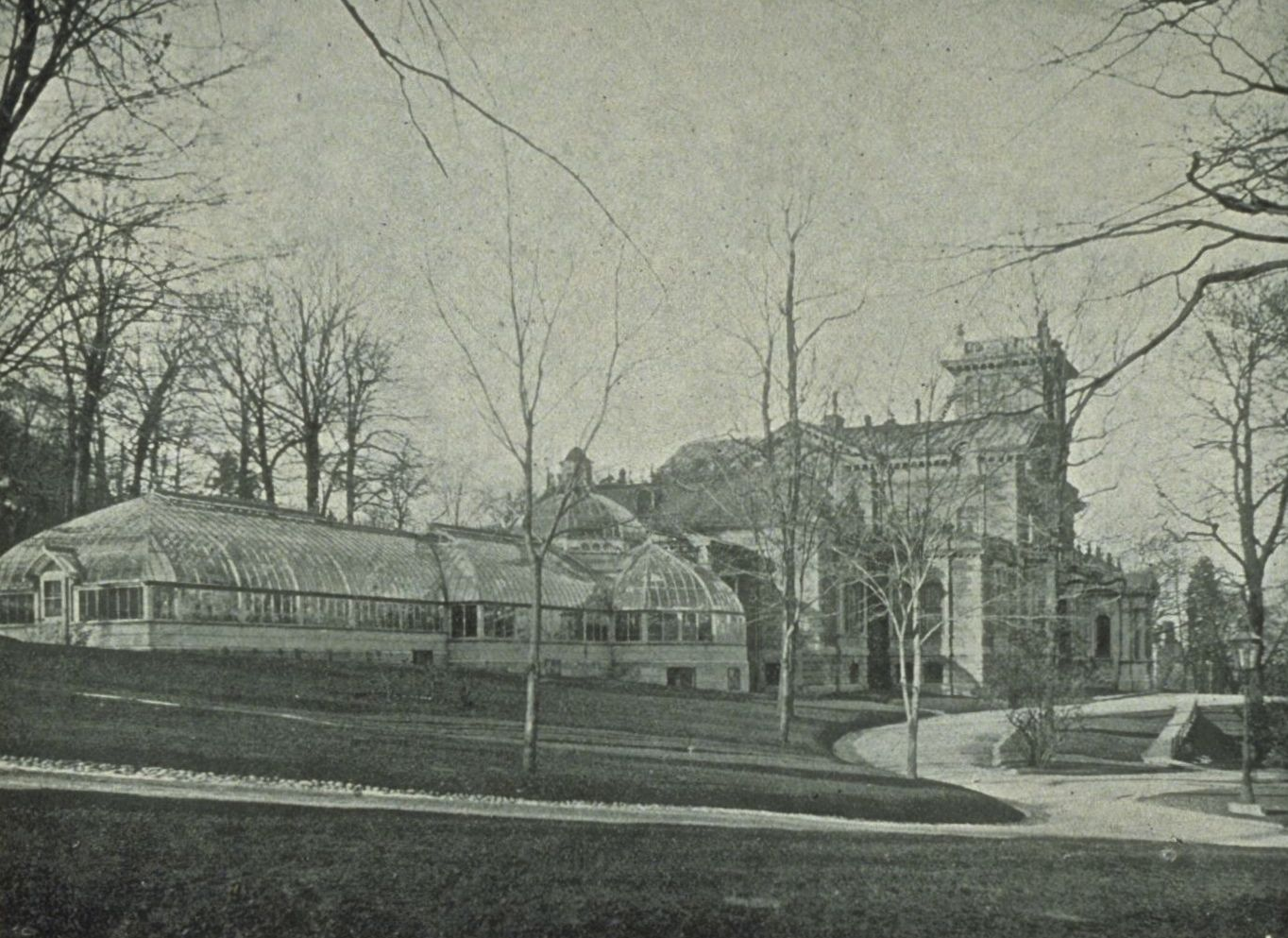 Hugh Allan House, "Ravenscrag", 835-1025 Pine Avenue West, Montreal, Quebec, Canada.